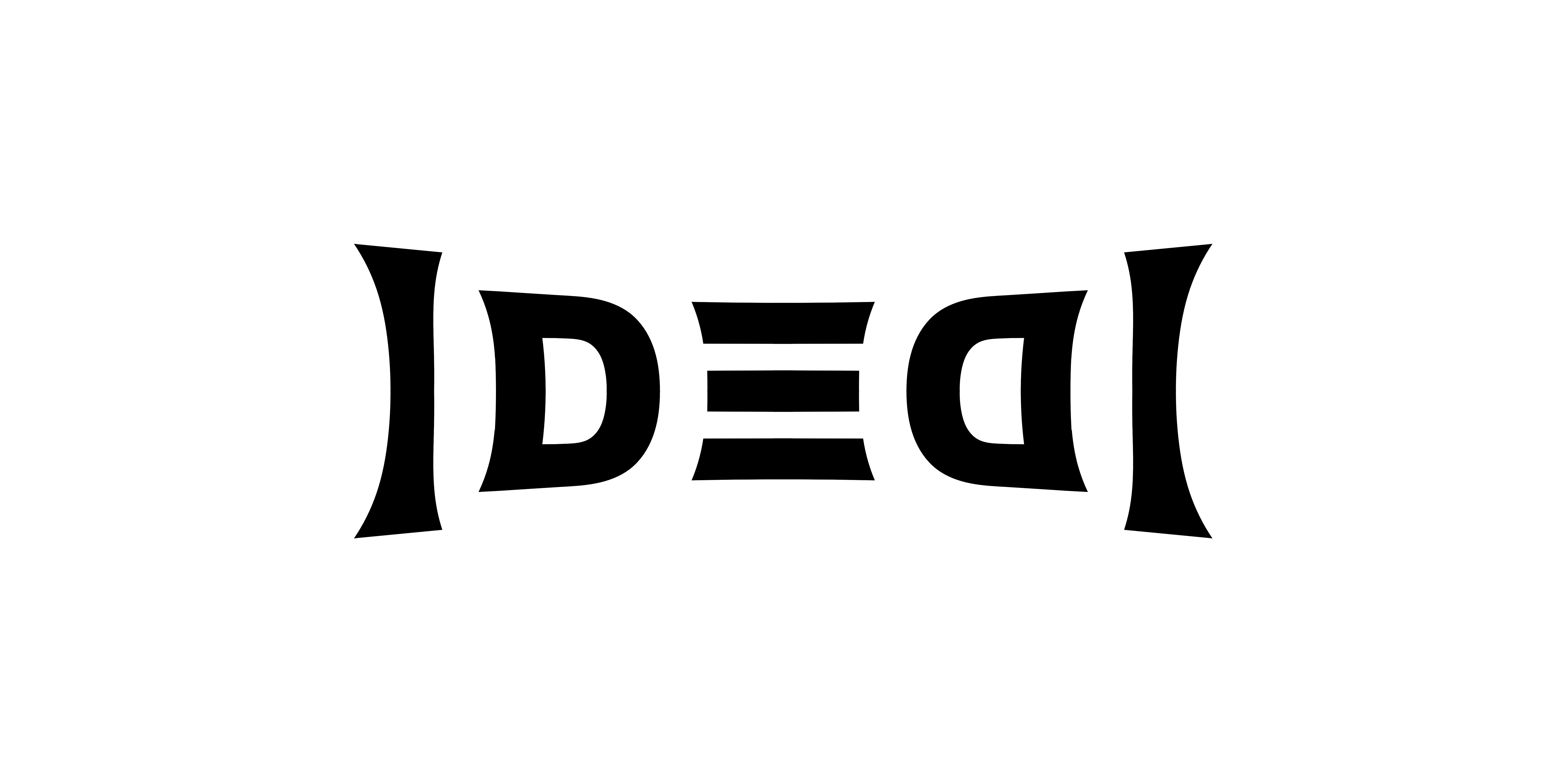 Ambigram Ideal. Polysymmetrical logo. Perfect word, ideal logo